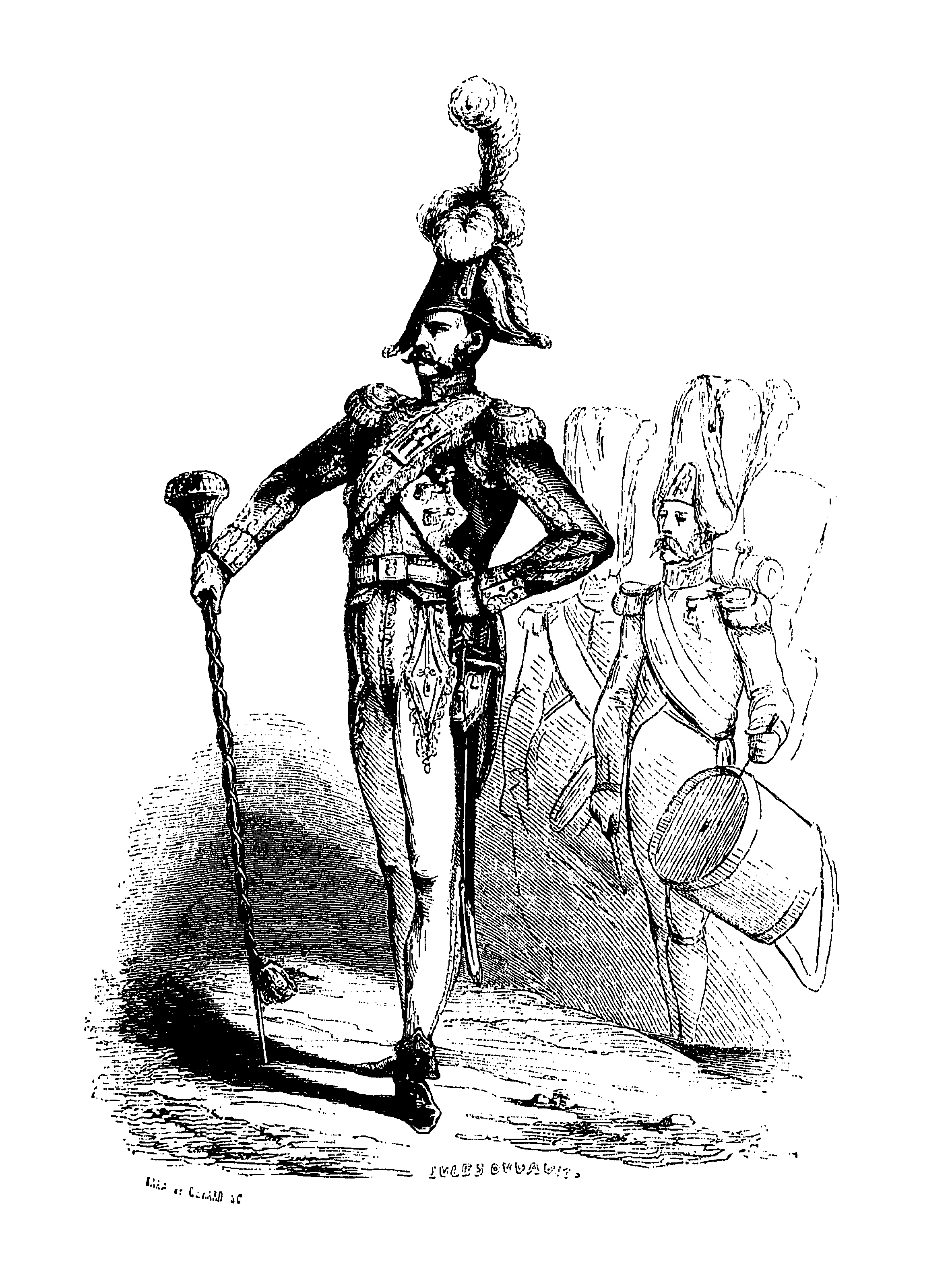 Jean Nicolas SENOT (1761-1837), Drum Major of the Ist Regiment of Foot Grenadiers of the Imperial Guard, engraving from the "Histoire de la Garde Impériale", by Emile Marco de Saint-Hilaire, Paris, 1846